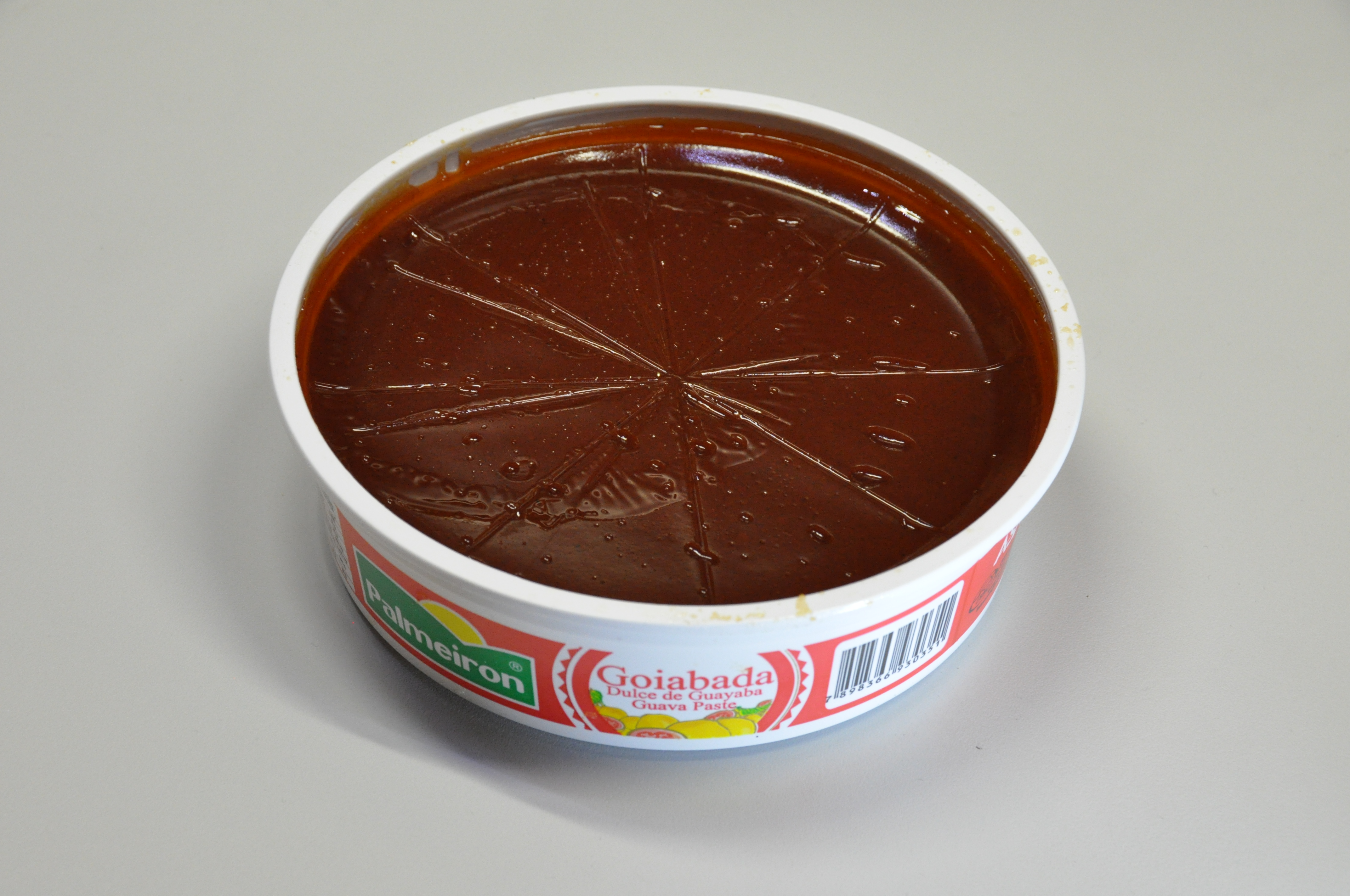 Goiabada container opened